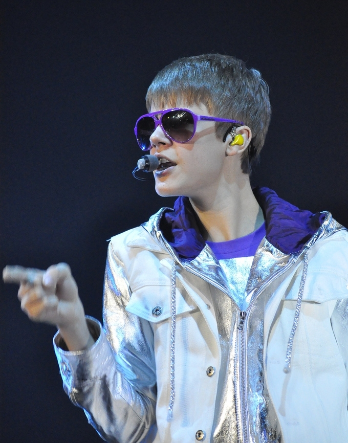 Justin Bieber at the Sentul International Convention Center in West Java, Indonesia